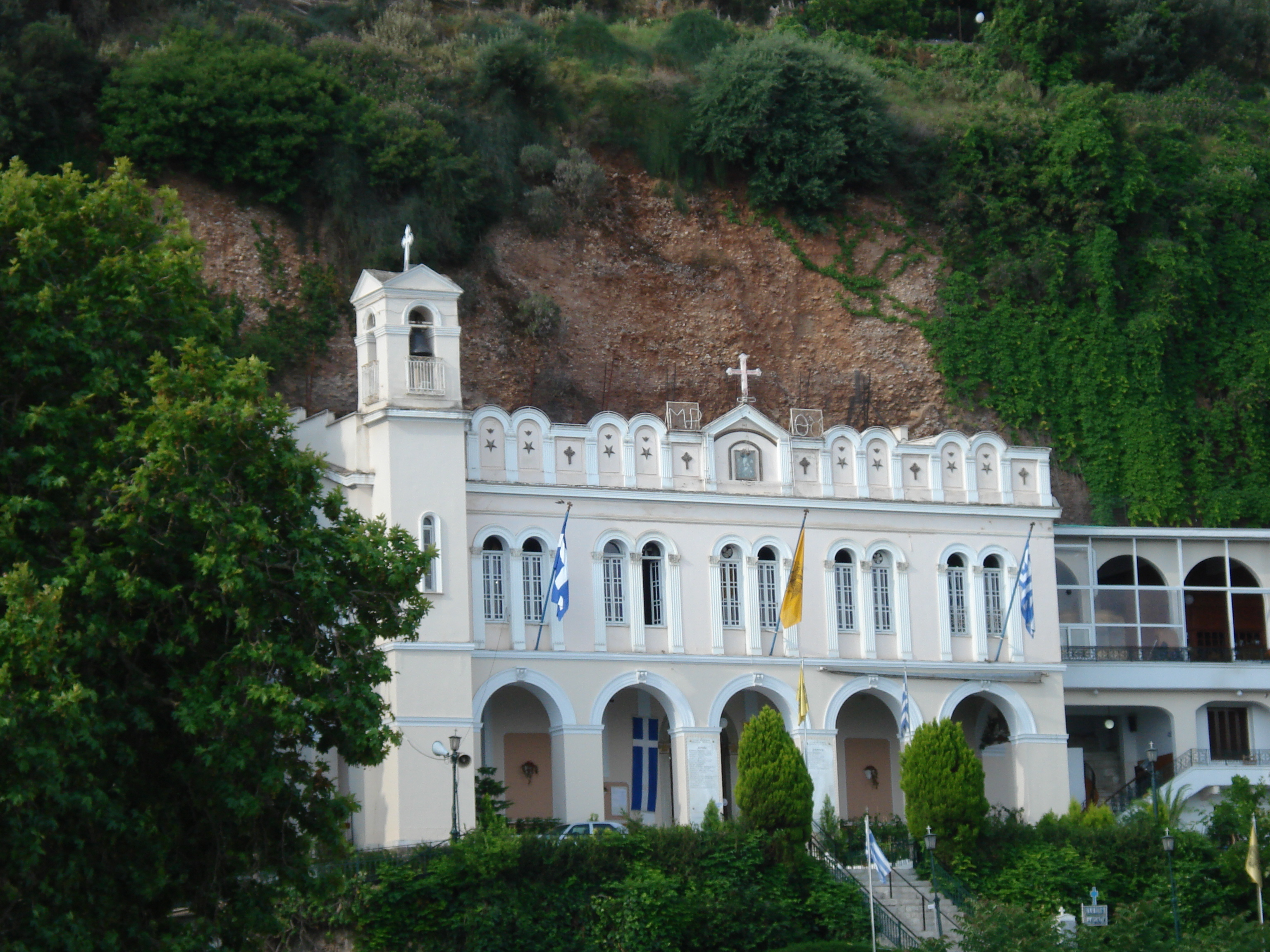 Aegion - Church of Panagia Tripiti Panagia Tripiti (Greek: Παναγία Τρυπητή) is an historical sacred shrine of Theotokos in the town of Aigio, Greece.It is one of the most important orthodox shrines of pilgrimage in Greece. The shrine is dedicated to the Mother of God of the Life Giving Spring. It is built on a steep cliff almost 30 meters high, near to sea .The many and impressive miracles which occur through the intercessions of the Virgin Mother have cansecrated the church in the conscience of the faithful as a national shrine. Thousand of believers, from all over Greece, arrive at Aigio on bright Friday every year, to get Panagia's grace and to get Her blessing. This day every year there is a procession of the Holy Icon through the streets of Aigio and it is an official religious holiday. The name Tripiti comes from the greek word tripa (Greek: Τρύπα) meaning hole,cave, because the miraculous icon of Panagia was found in a hole in the rock. In the narthex of the church (which is on the ground floor) there is a spring of water (Greek: Αγίασμα).The faithful drink this water as a blessing since it is believed that it works miraculous cures.